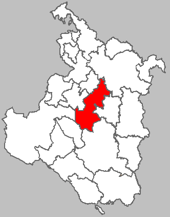 Location of municipality inside Karlovac County